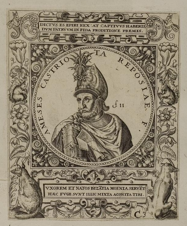 Depicted person: Hamza Kastrioti – 15th-century Albanian nobleman